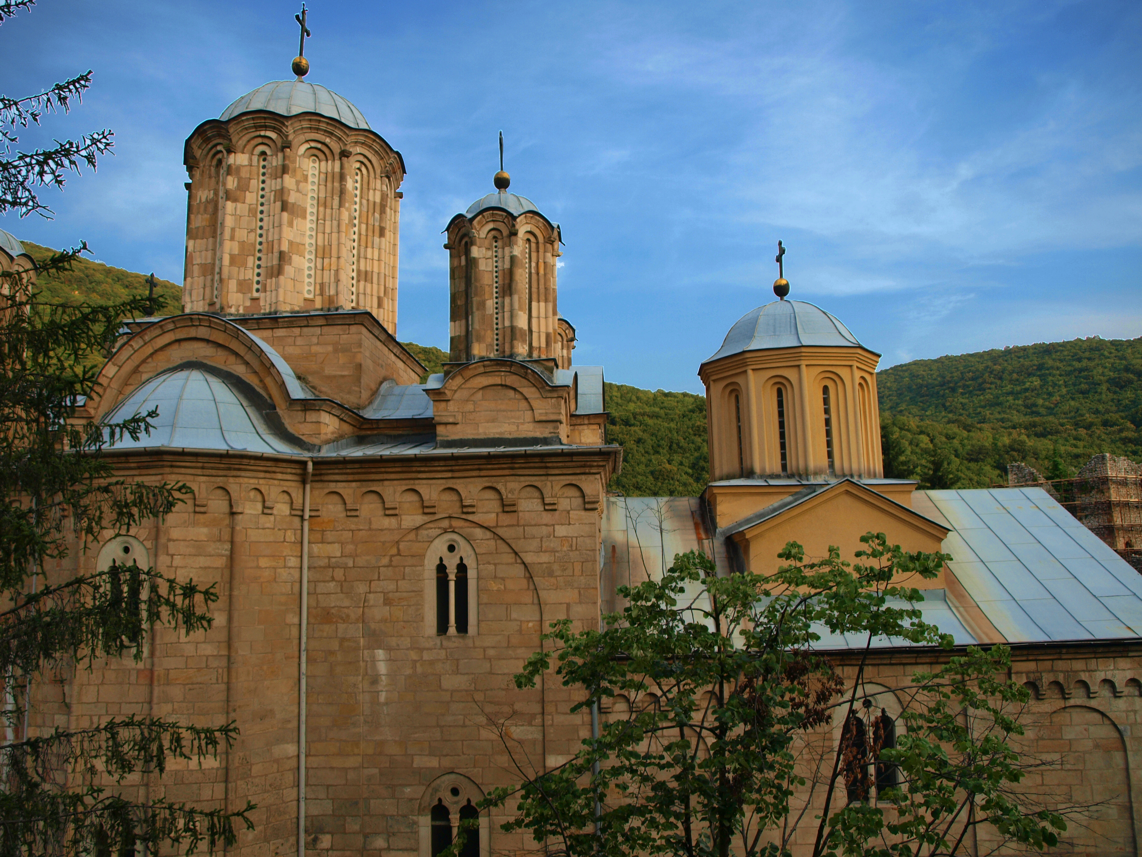 South view on church of Manasija monastery.